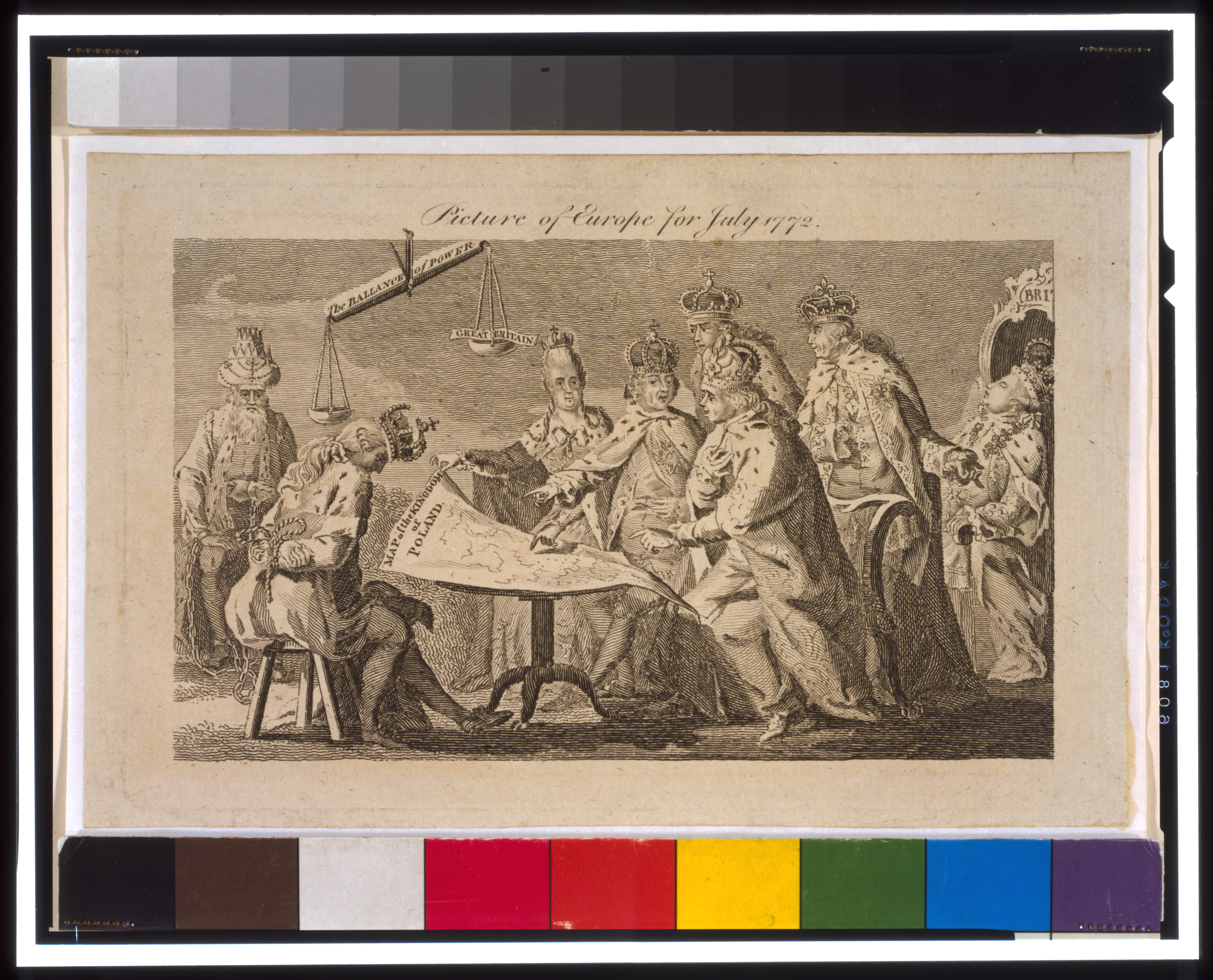 Title: Picture of Europe for July 1772 Abstract: Cartoon shows Catherine II, Joseph II, and Frederick William II seated at table on which rests a map of Poland; standing behind them and looking over their shoulders are Louis XV and Charles III, still further back, asleep on a throne is George III; on the left, with head bowed, wearing a broken crown, and with hands bound behind him, sits the King of Poland, to his left sits Selim III in chains; a scale "The Ballance of Power" hangs above the table, the lighter side is labeled "Great Britain" reflecting George III's influence on, or concern for, the affairs of Europe. Physical description: 1 print : etching. Notes: Forms part of : British Cartoon Prints Collection (Library of Congress).; Exhibit loan 4161-L.